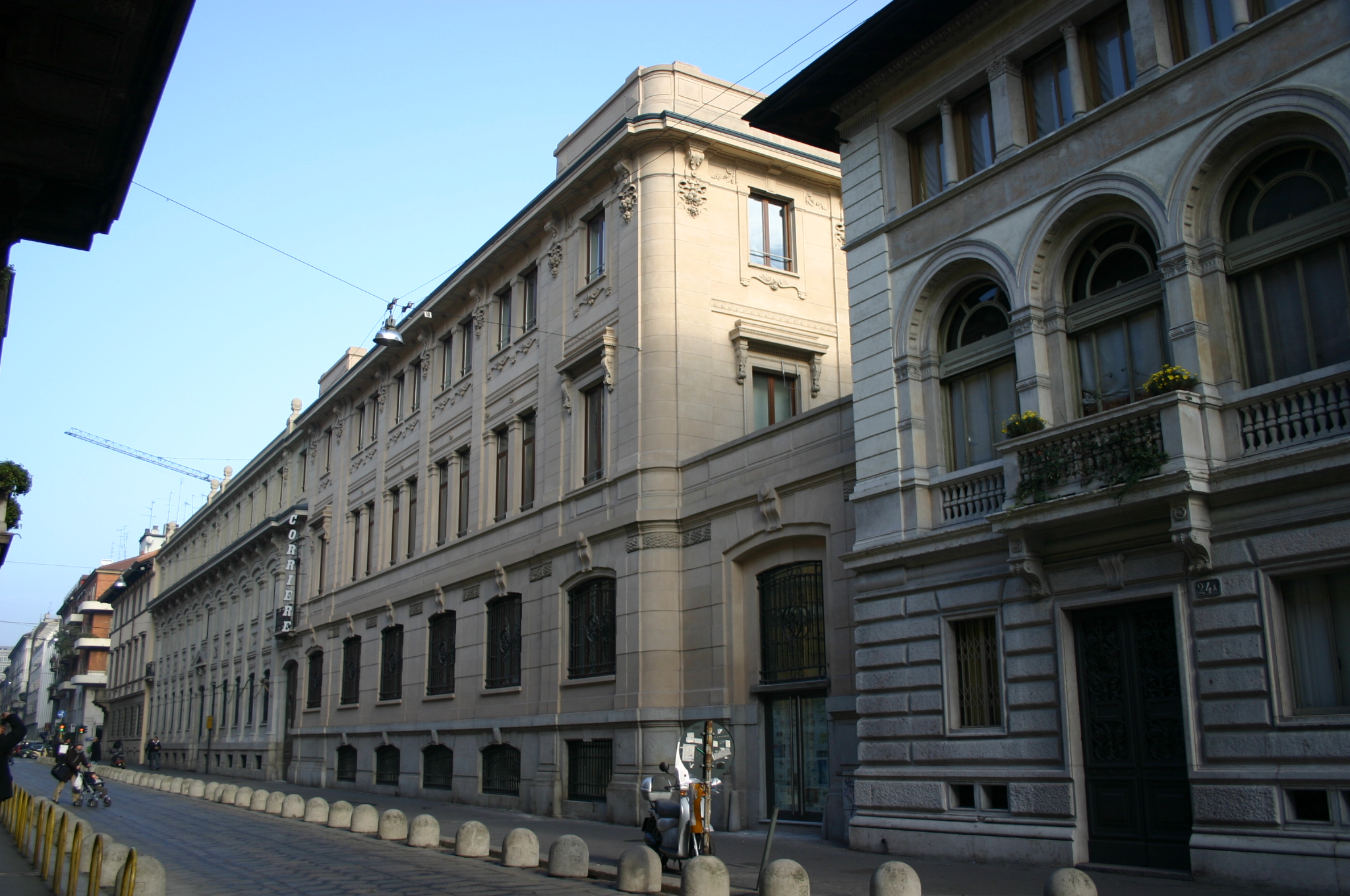 The building housing the most important Italian newspaper, "Corriere della sera" in via Solferino in Milan (Italy). It was projected by Luca Beltrami in 1904. Picture by Giovanni Dall'Orto, January 20 2007.